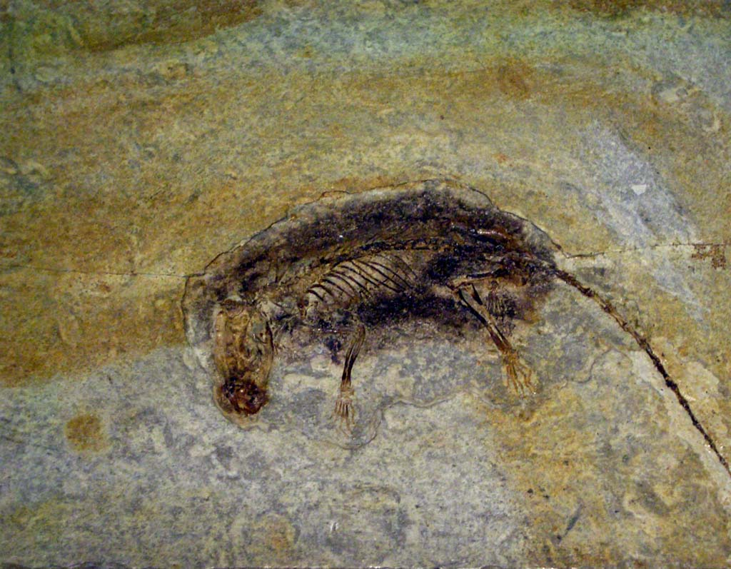 Eomaia scansoria fossil displayed in Hong Kong Science Museum